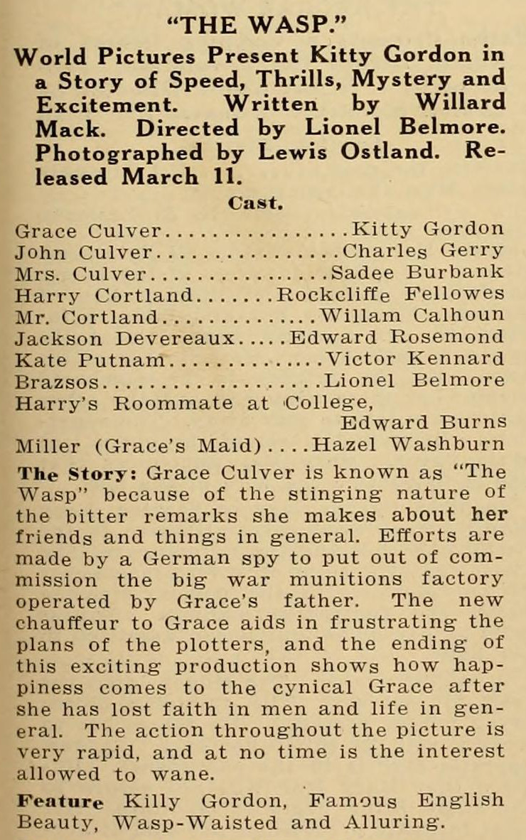 Text description of the The Wasp (1918)